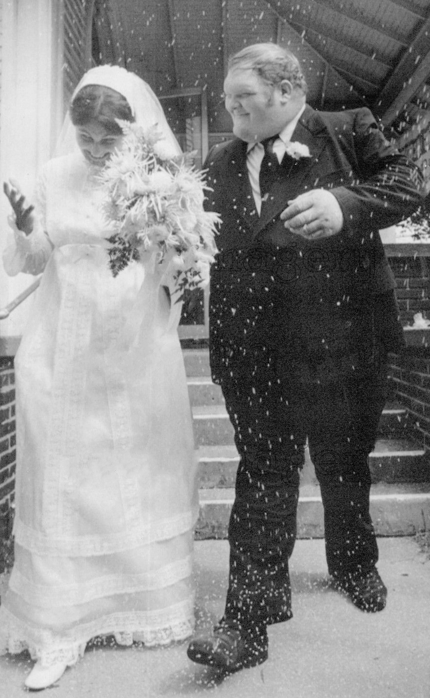 1973 Press Photo Heavyweight Wrestler Chris Taylor Weds Lynn Hart